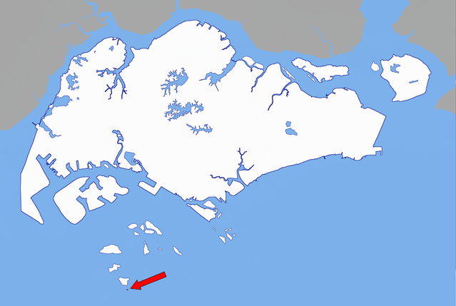 A locator map showing the location of Raffles Lighthouse on Pulau Satumu, Singapore.